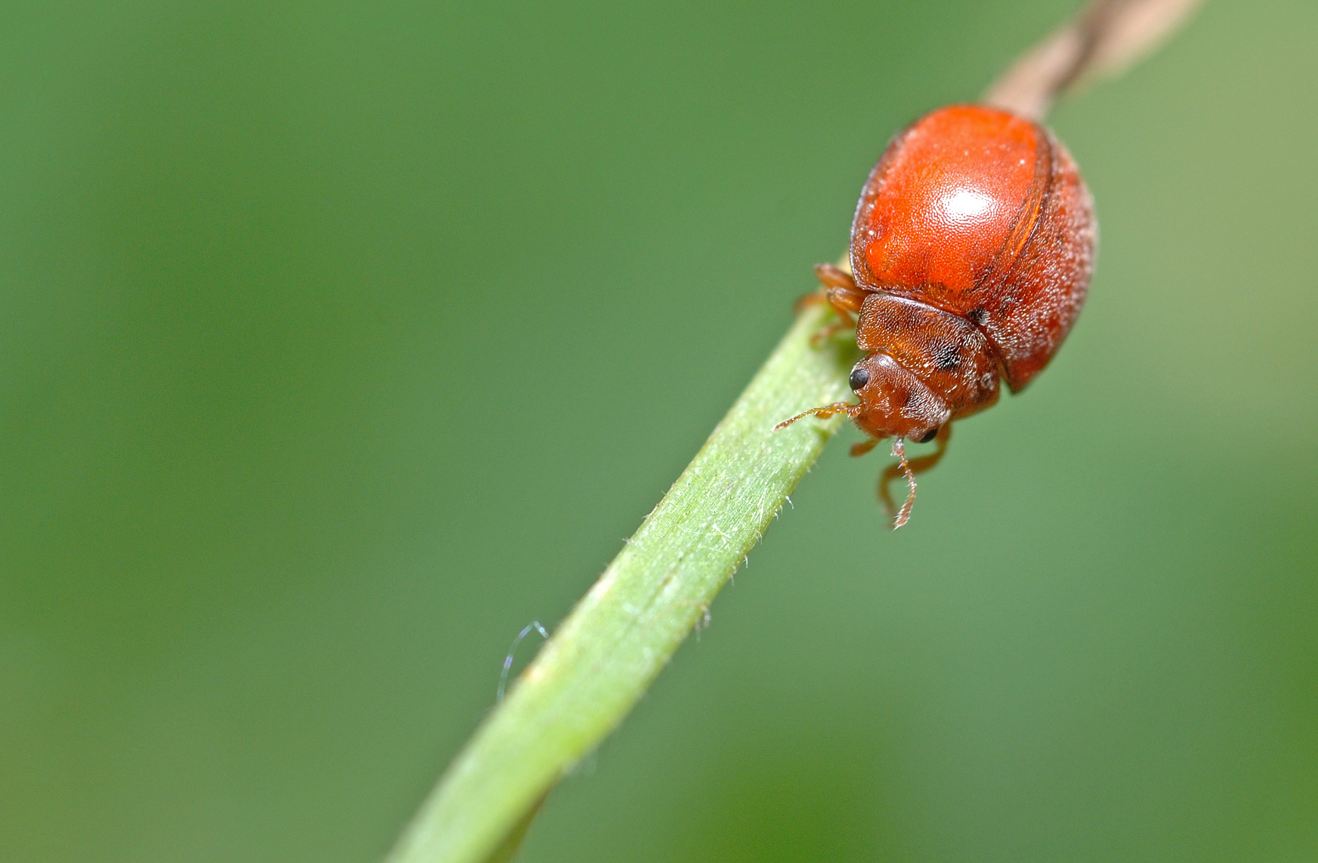 Here a form without spots.